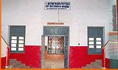 Author was the student of the same institute from 1999 to 2002. During his study time only he had clicked the same.